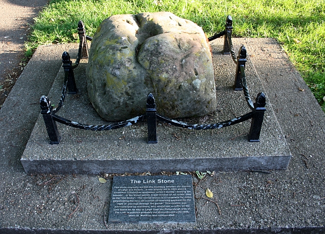 The Link Stone, or Whore Stone on some old maps. A former parish boundary stone, now in St Matthias' parish churchyard, Malvern Link, Worcestershire. It would have been one of several markers delineating the parish bounds. 1327230 1327238